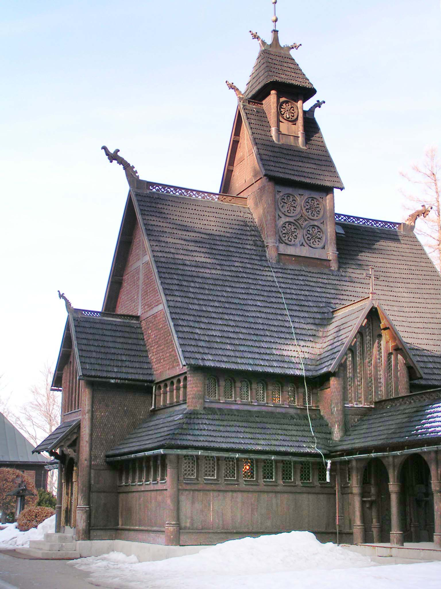 Vang stave church in Karpacz, Poland